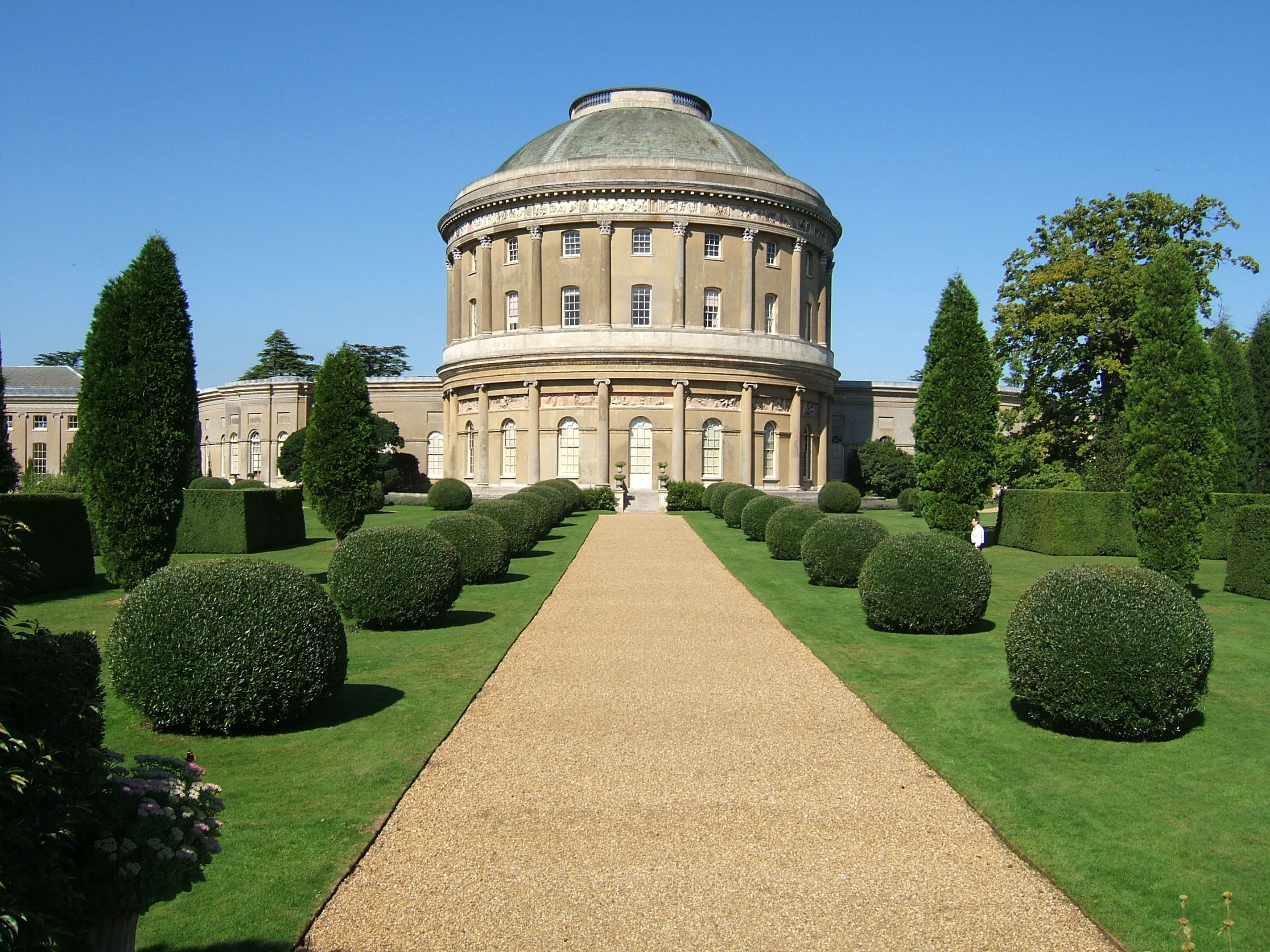 Ickworth House in Suffolk, EnglandIckworth House